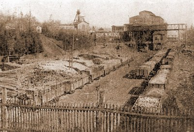 The colliery Hlubina in Karviná (Czech Republic) and its transit point in 1932